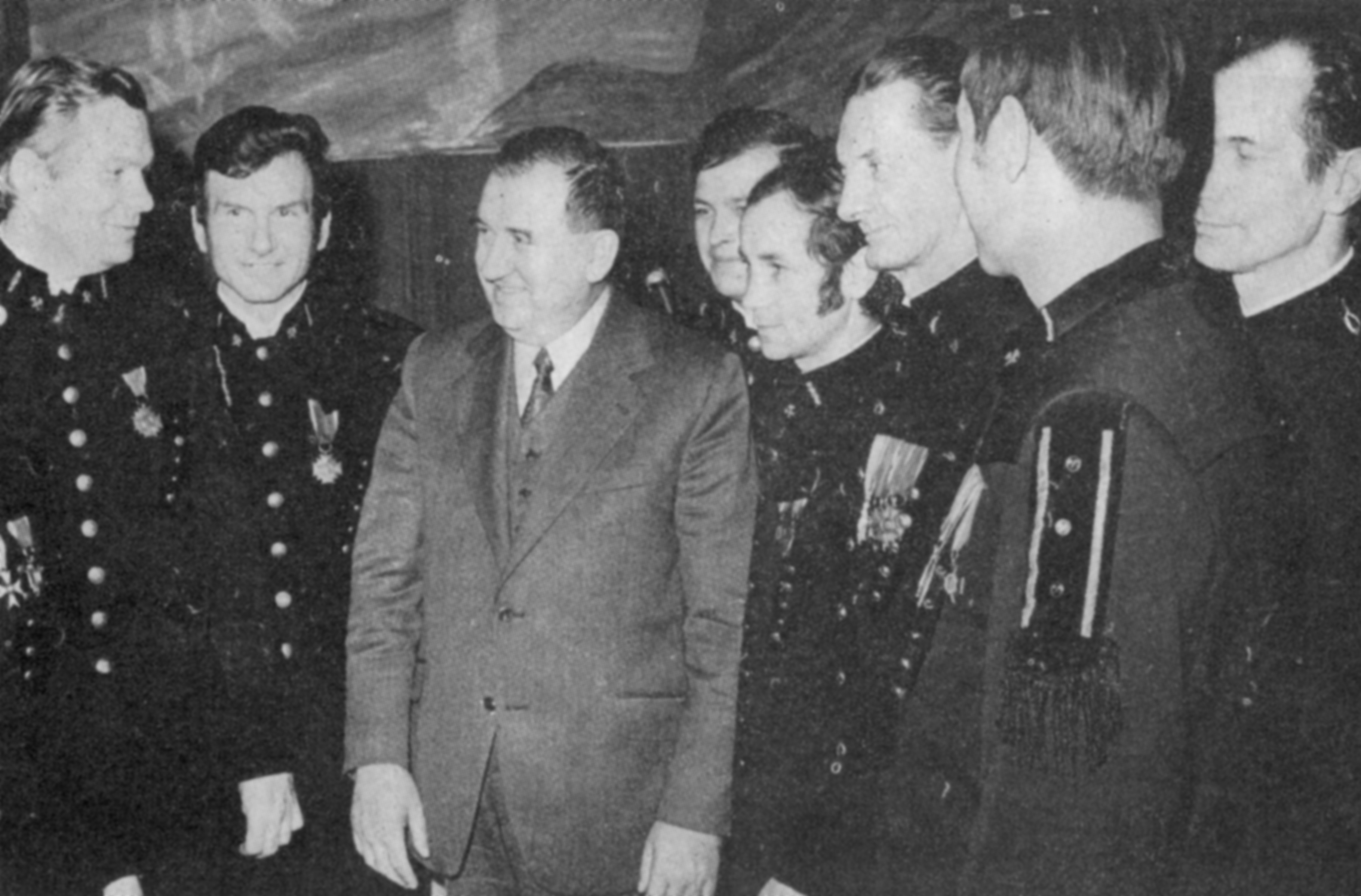 Zdzisław Grudzień, the first secretary of the executive committee of the the Polish United Workers' Party in Katowice among workers of coal mine Sosnowiec.